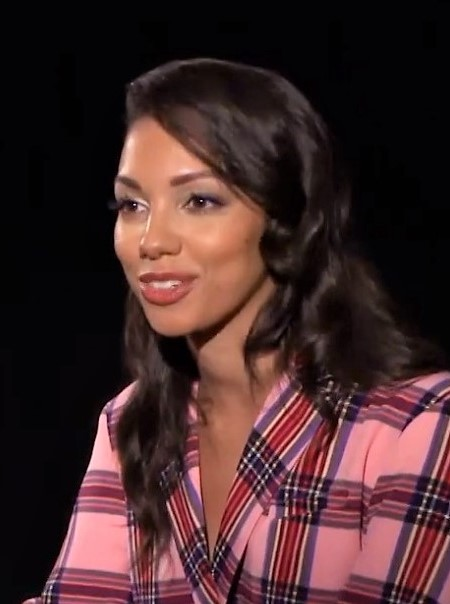 Actress Corinne Foxx interviewed about her film "47 Meters Down: Uncaged" by Dulce Osuna 🦈 Sistine Stallone & Corinne Foxx talk the advice they didn't take from their famous dads by Dulce Osuna